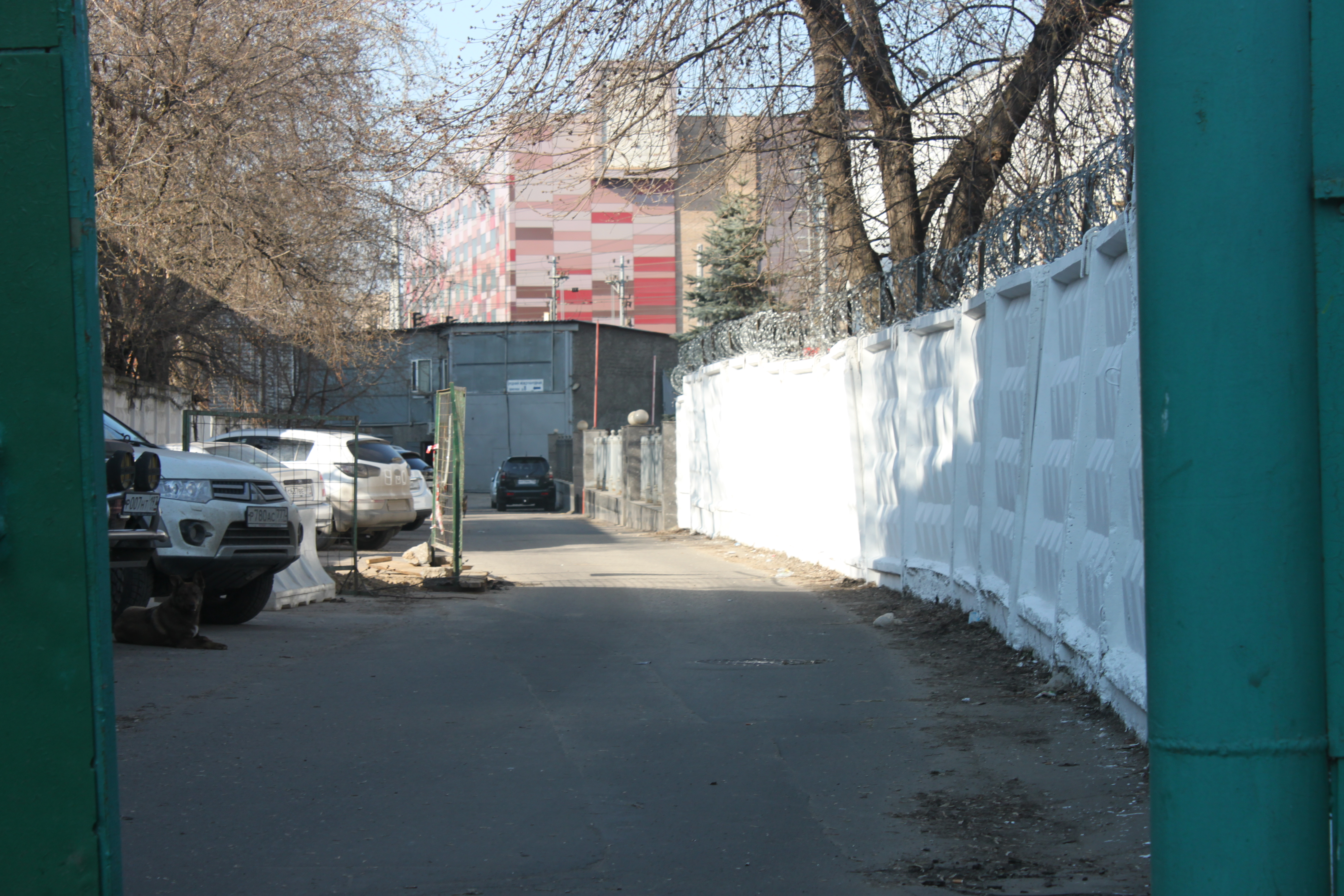 Carpet Lane.